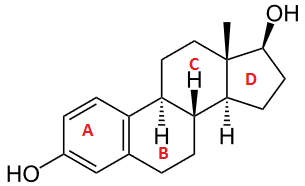 The ABCD steroid ring system in 17β-estradiol.